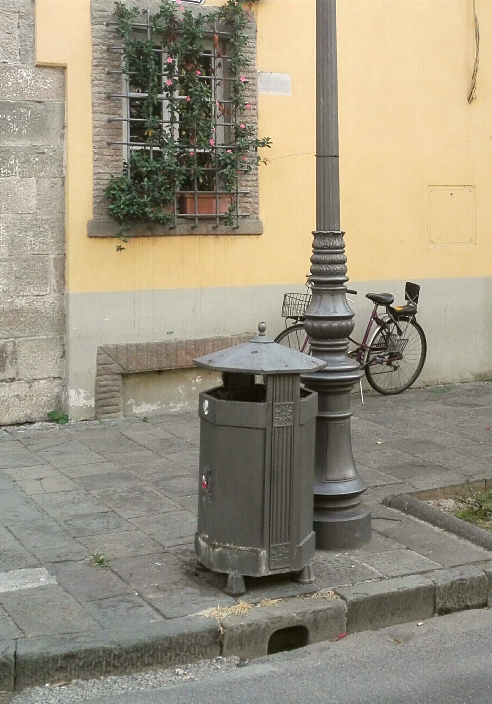 Waste container in Italy